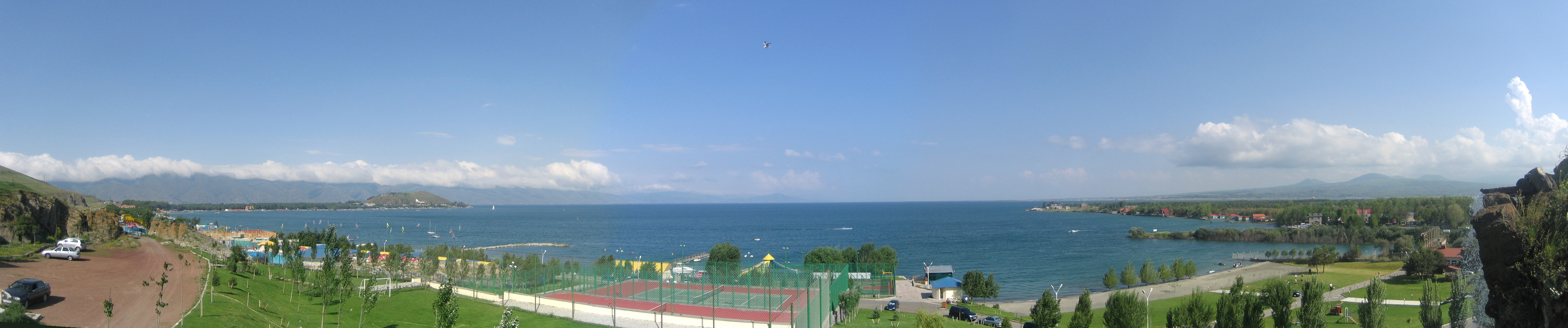 A panorama of Lake Sevan in Armenia from the northeastern shore near the city of Sevan. Panorama created with Hugin software.